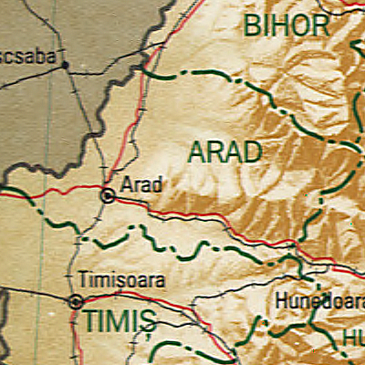 Map of Arad County, Romania.